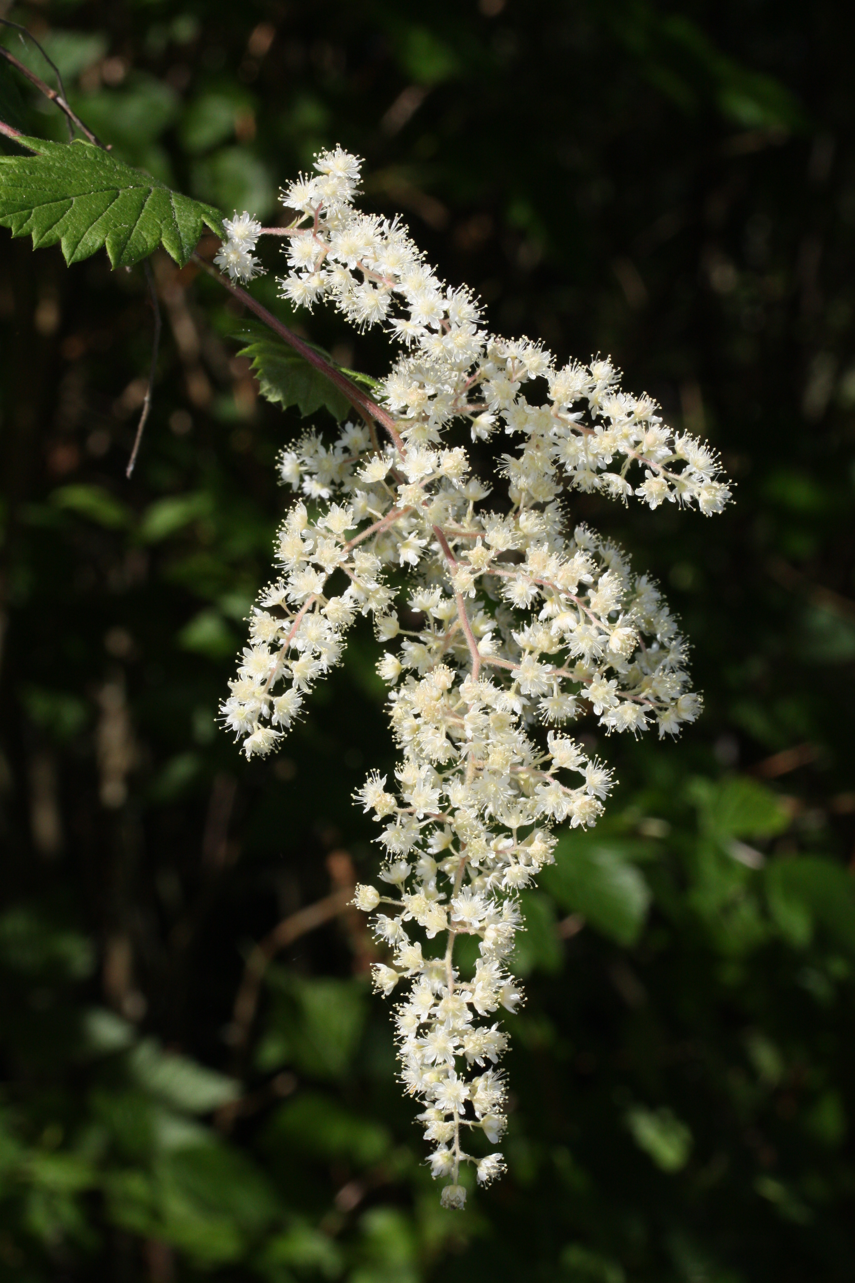 Ocean-spray, Creambush.